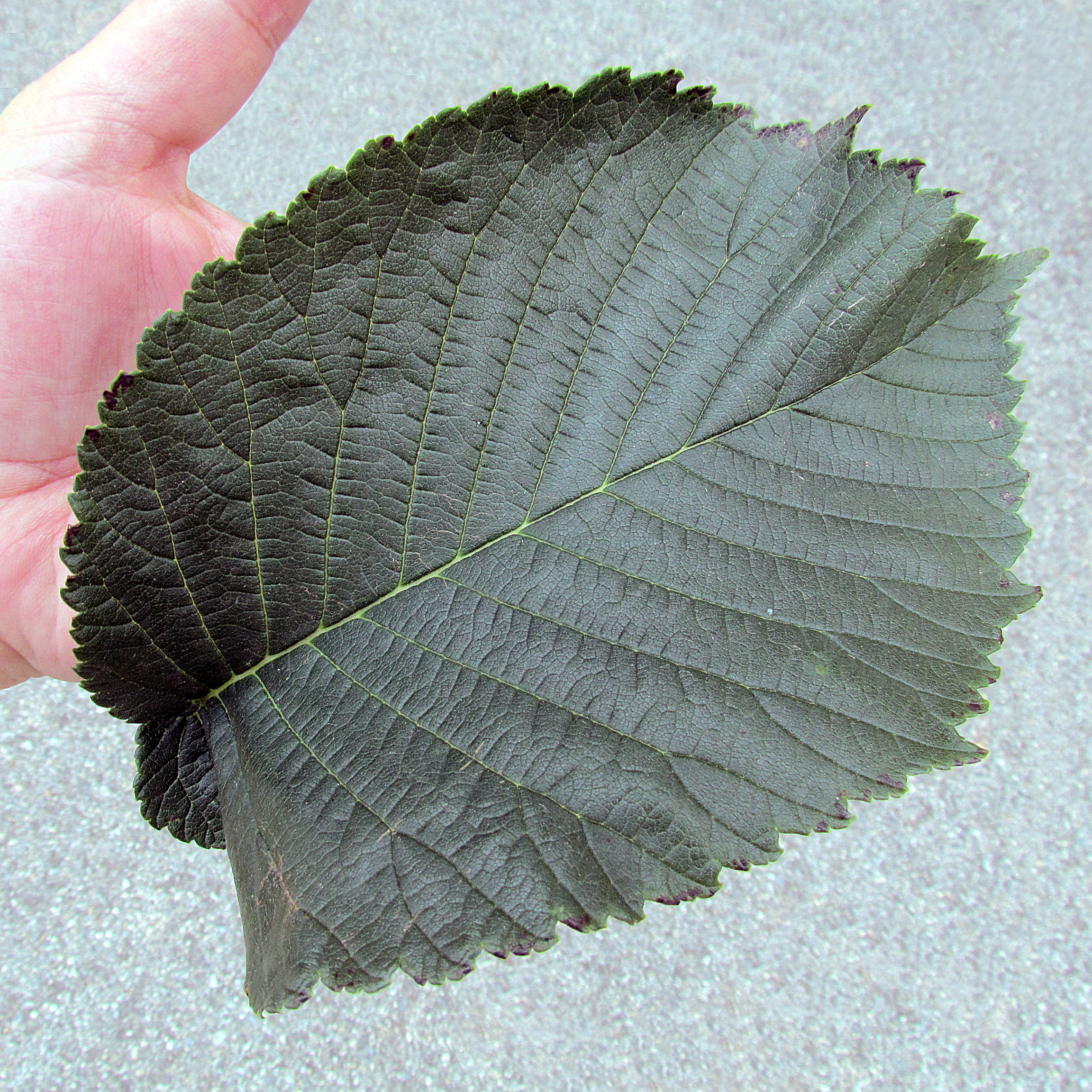 Ulmus glabra leaf